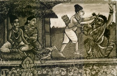 The Humiliation of Shurpanakhi Lakshman Cuts of the Nose of Rawana's Sister -- Painting from Anjaneya Temple, Mulbagil